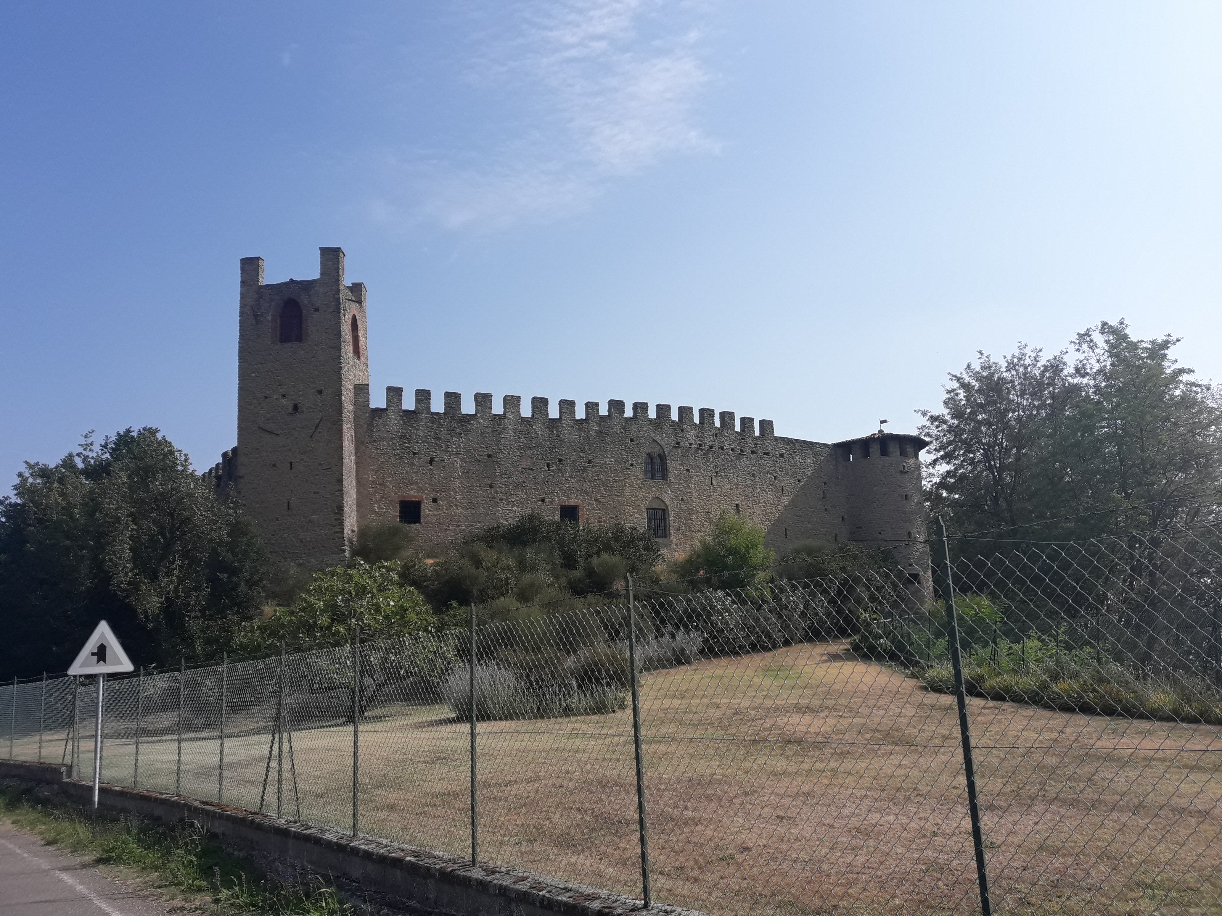 Castle of Magnano, municipalty of Carpaneto Piacentino, Piacenza, Italy